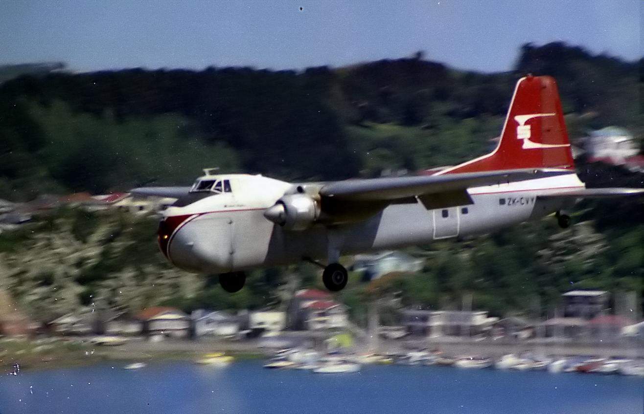 For 30 years these aircraft carried air freight between the North and South islands of New Zealand. This shot was taken during their last month of operation. Bristol Freighters were originally designed to carry cars across the English Channel. One remains in a museum in Blenheim, New Zealand.